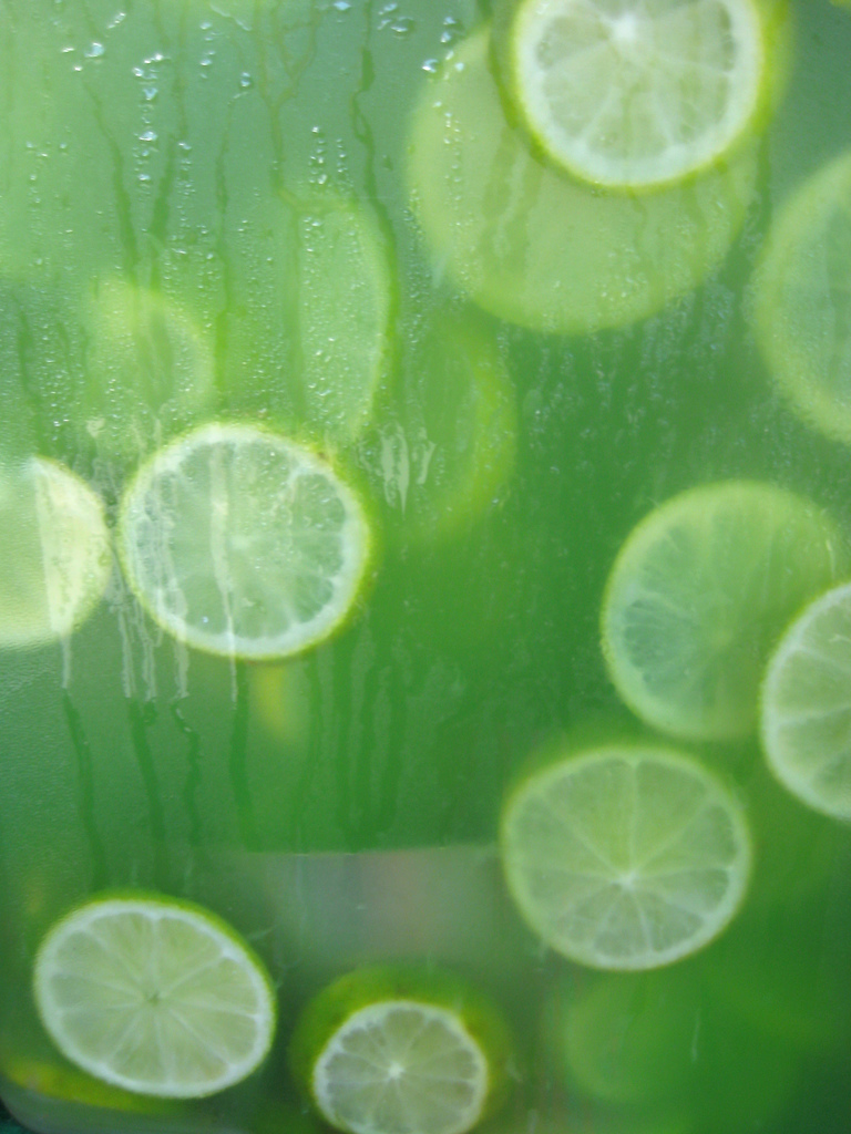 Container of lime juice with cut limes